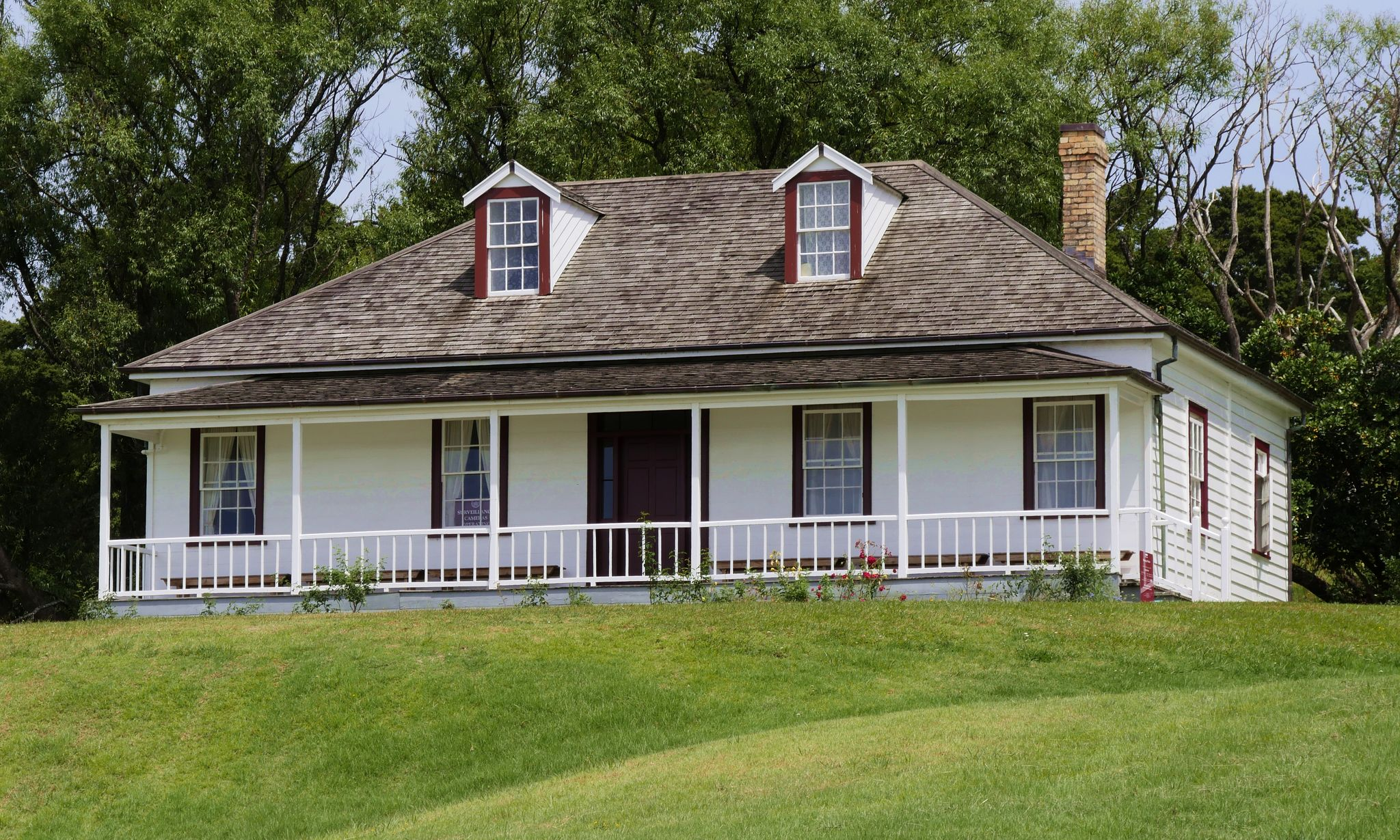 Māngungu Mission House, Far North District, Northland Region, North Island, New Zealand, build 1838-1839